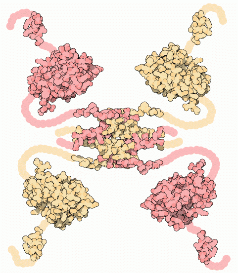 p53 tumor supressor. Flexible portions of the molecule that are not included in the structures are shown schematically.